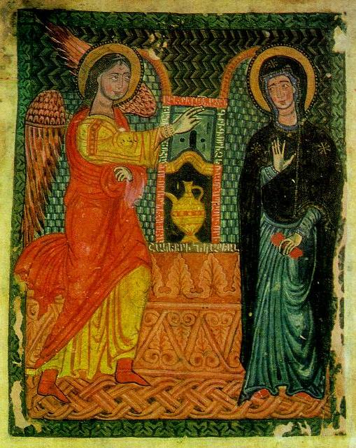 Miniature of Grigor Tatevatsi, 1378. Gospel, 1297